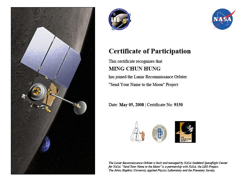 2008 Lunar Reconnaissance Orbiter